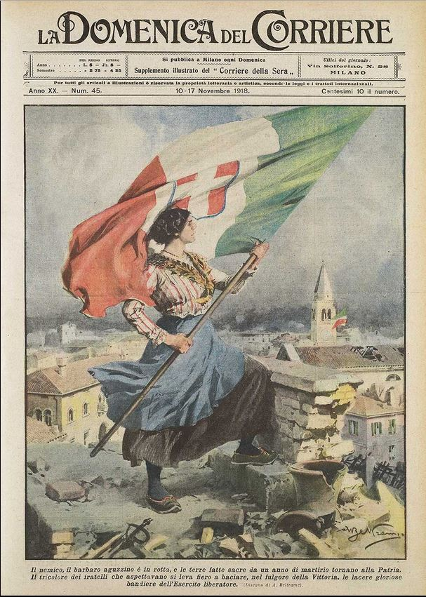 Tricolore flag over Trieste at end WWI